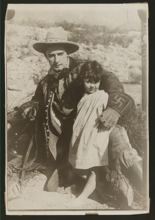 Digital ID: TH-41719 Source: Billy Rose Theatre Collection photograph file / Productions / On Desert Sands (Cinema : 1915) ( Repository: The New York Public Library. The New York Public Library for the Performing Arts. Billy Rose Theatre Division. See more information about and others at Persistent URL: Rights Info: No known copyright restrictions; may be subject to third party rights (for more information